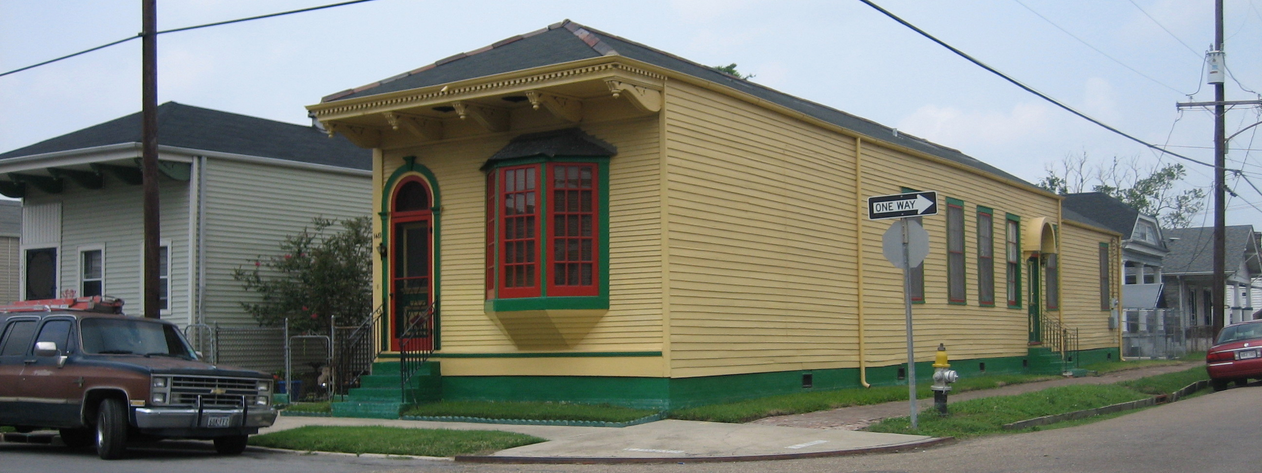 New Orleans downtown shotgun house